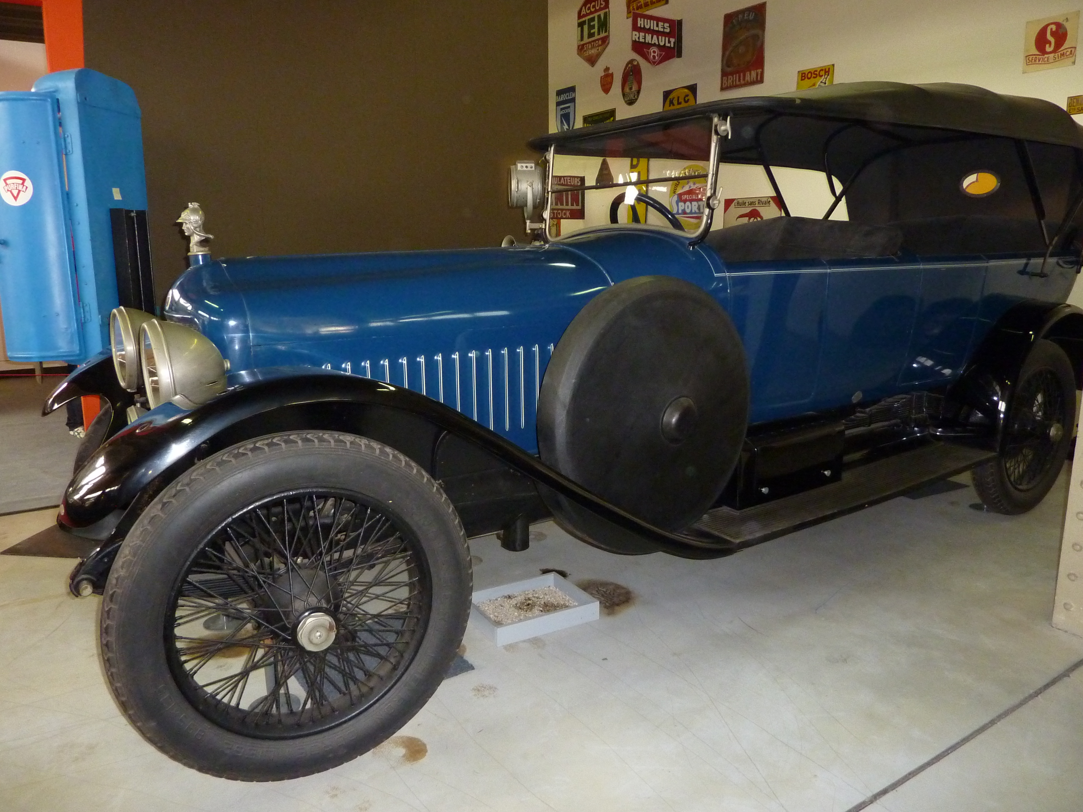 Minerva 1921 à l'Autoworld de Bruxelles.